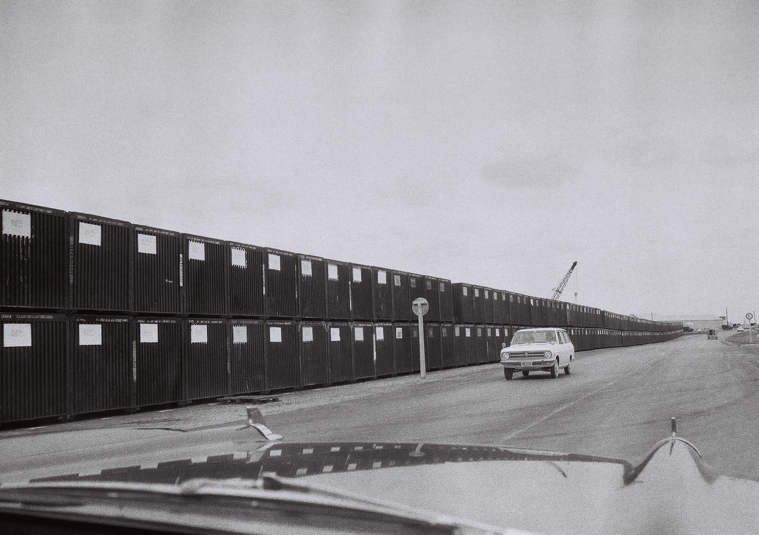 Retrograde chemicals from Vietnam are pictured at Camp Kinser, Okinawa. May 1971